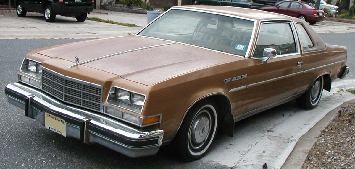 1977 Buick Electra coupe photographed in USA.